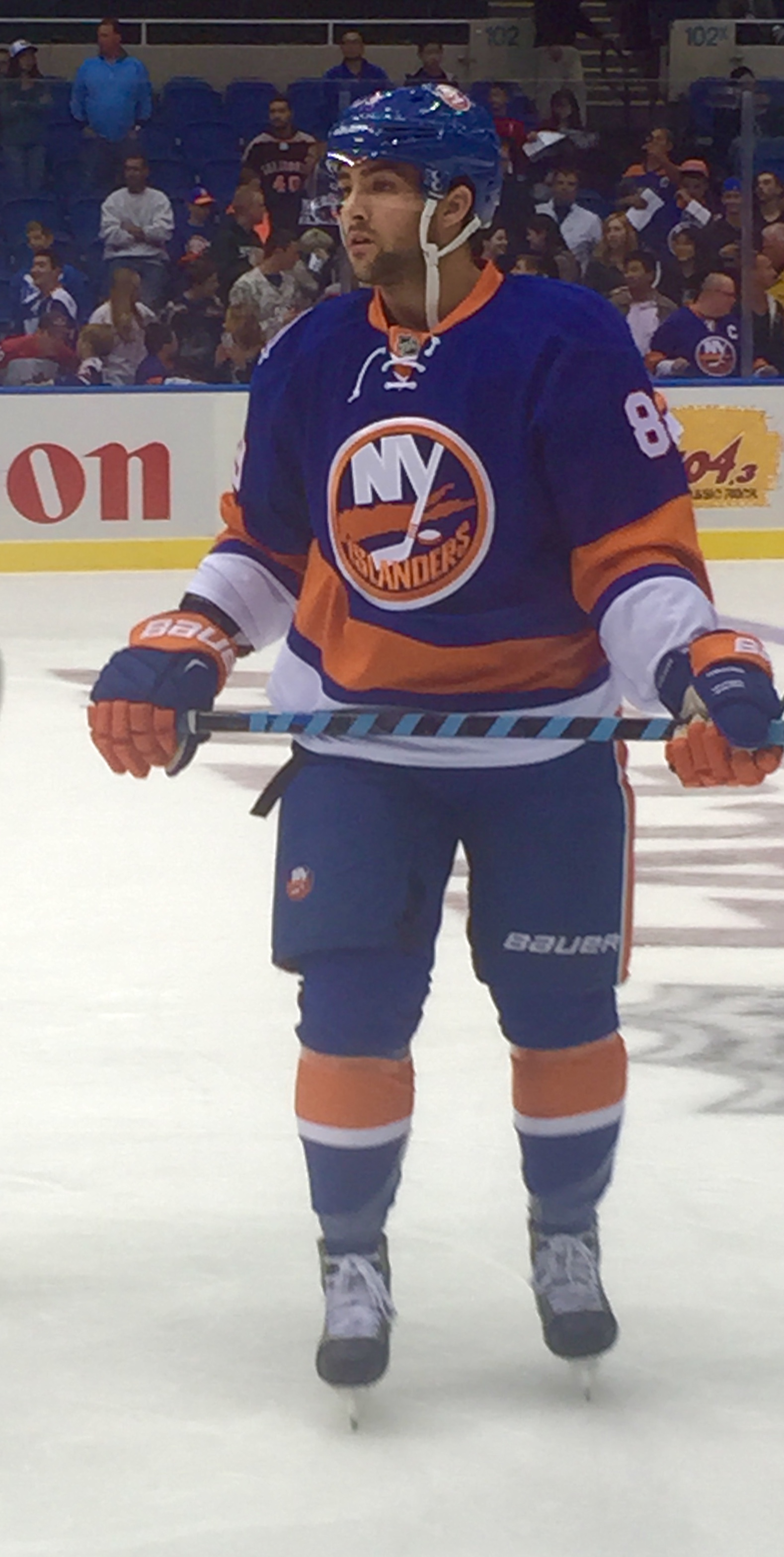 Cory Conacher of the New York Islanders